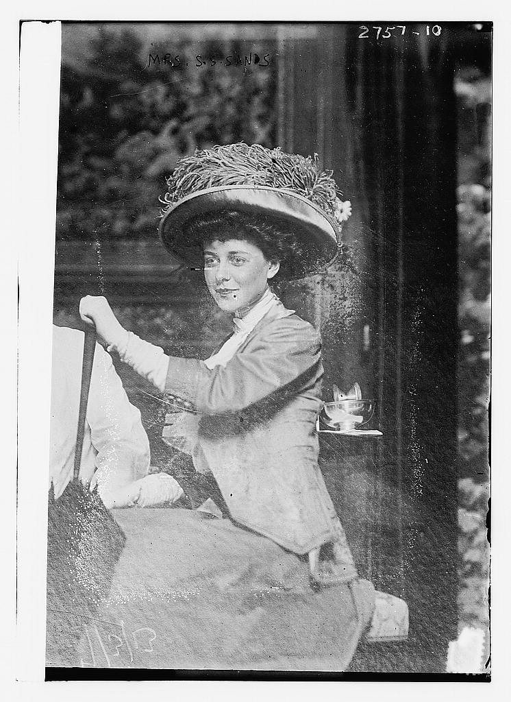 Bain News Service, publisher. Mrs. Gertrude Sheldon Sands [no date recorded on caption card] 1 negative : glass ; 5 x 7 in. or smaller. Notes: Title from unverified data provided by the Bain News Service on the negatives or caption cards. Forms part of: George Grantham Bain Collection (Library of Congress). Format: Glass negatives. Repository: Library of Congress, Prints and Photographs Division, Washington, D.C. 20540 USA, General information about the Bain Collection is available at Persistent URL: Call Number: LC-B2- 2757-10 Biography She was born as Gertrude Sheldon in Brooklyn to George R. Sheldon. Her first husband was Samuel Steven Sands III who died in 1913 in a car accident. In 1916 she married Richard Whitney. They had three children.